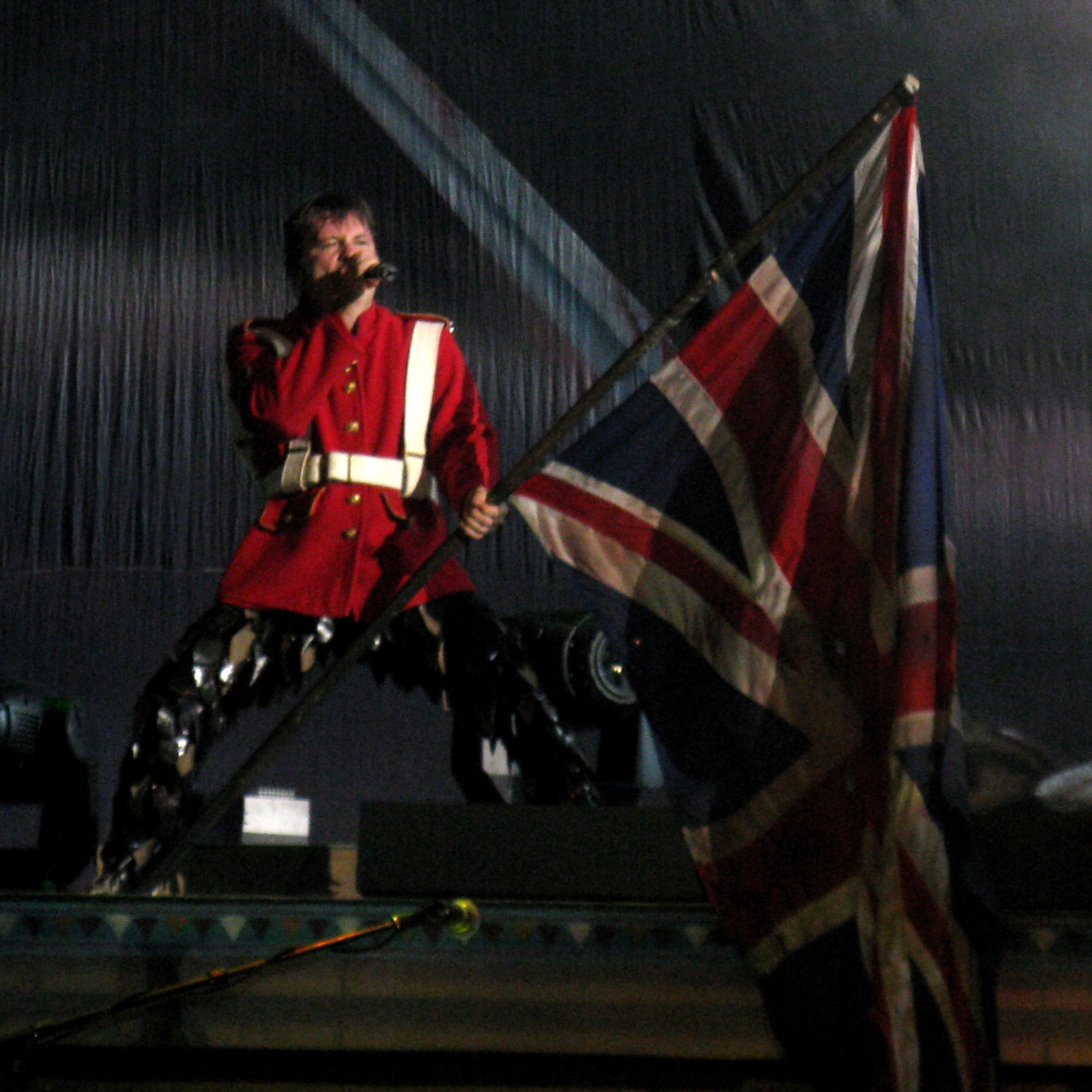 Bruce Dickinson performing "The Trooper" in Bercy (Paris, France).